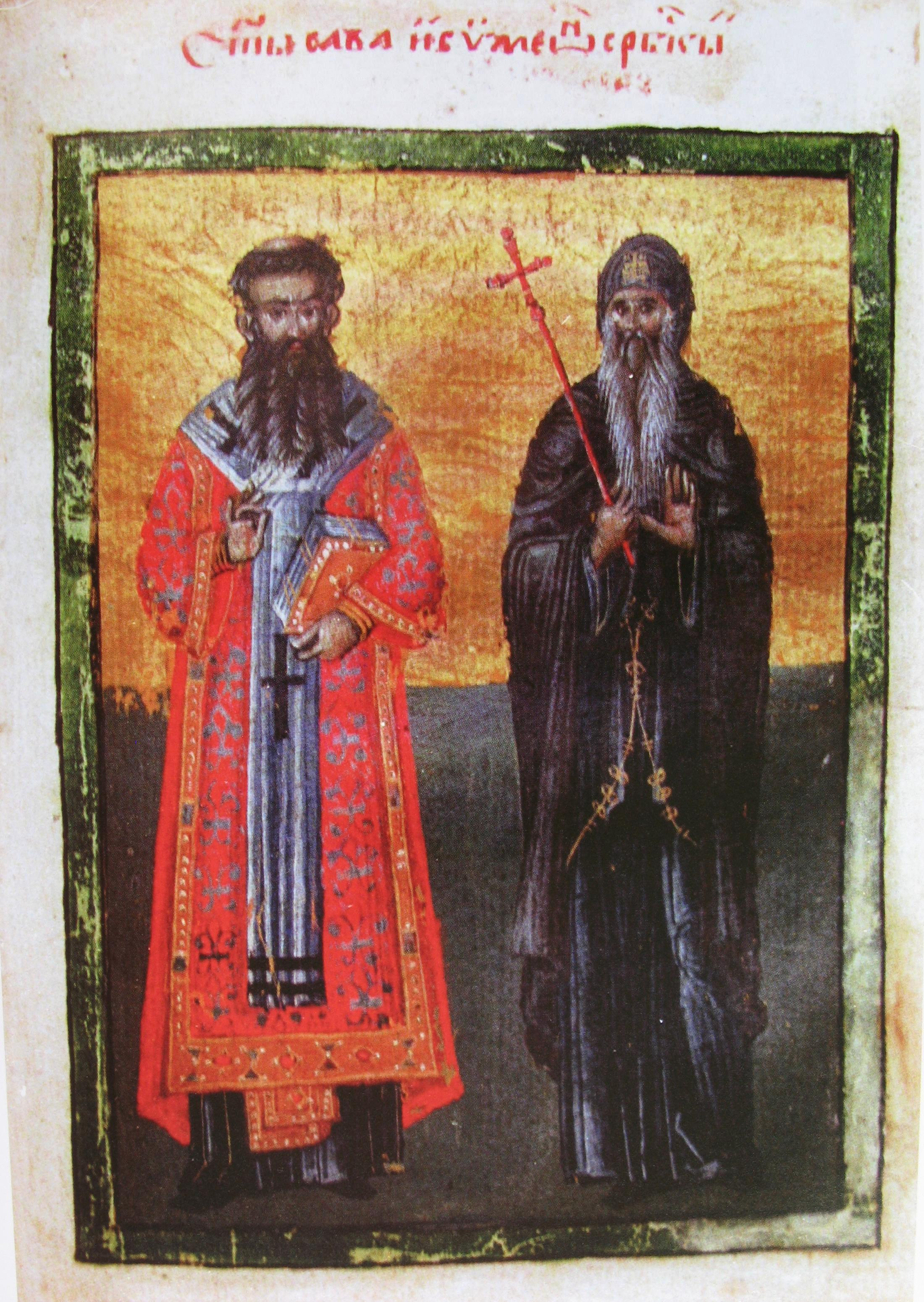 Saint Simeon with his son Sava